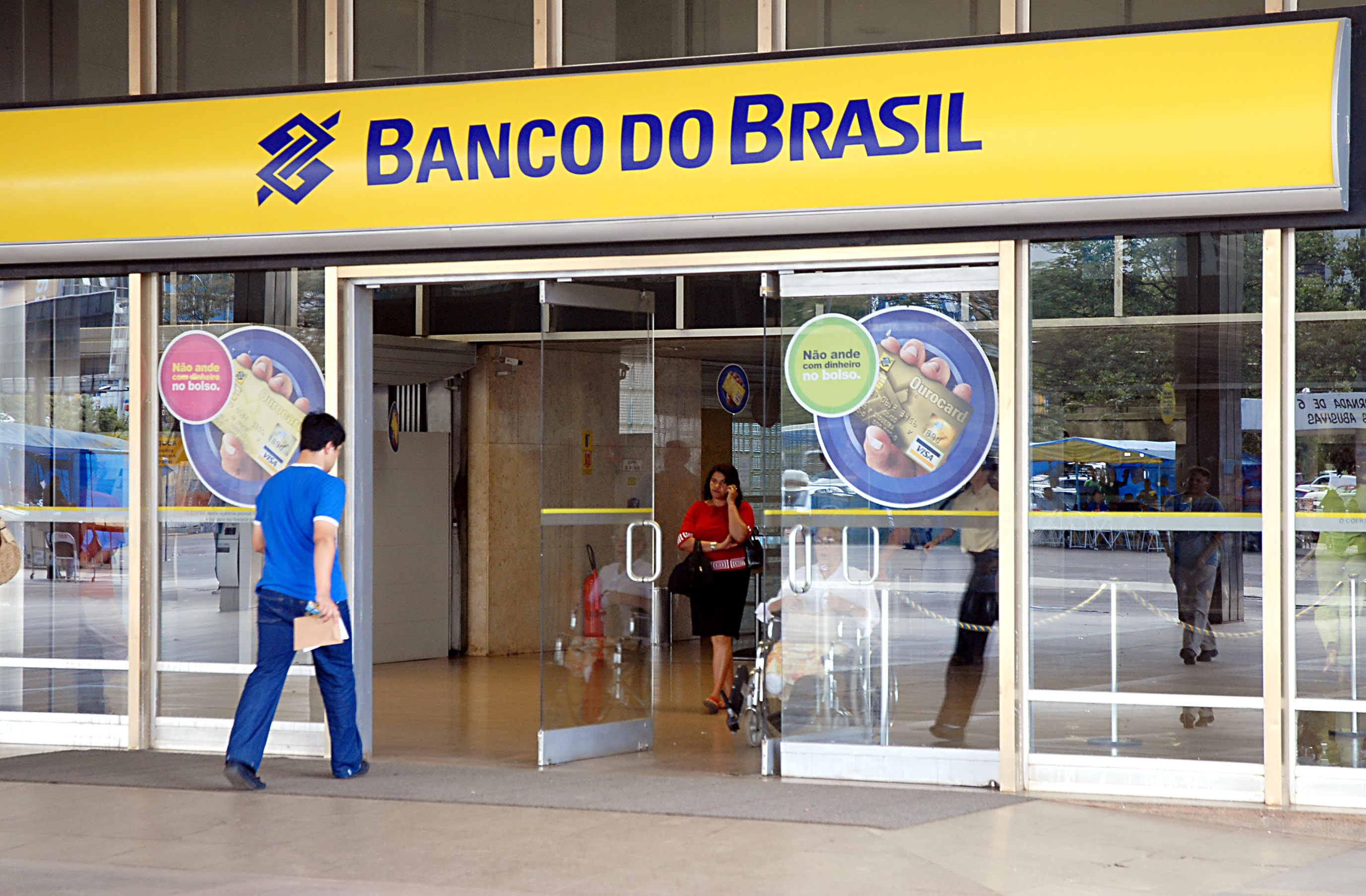 Entrance to a Banco do Brasil branch.